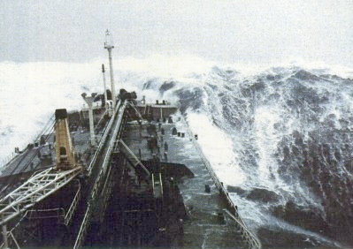 Beaufort Force 12 at a wind speed of 64 knots (118 kilometres per hour) or more. Huge waves; the sea is completely white with foam and spray. Air is filled with driving spray, greatly reducing visibility.